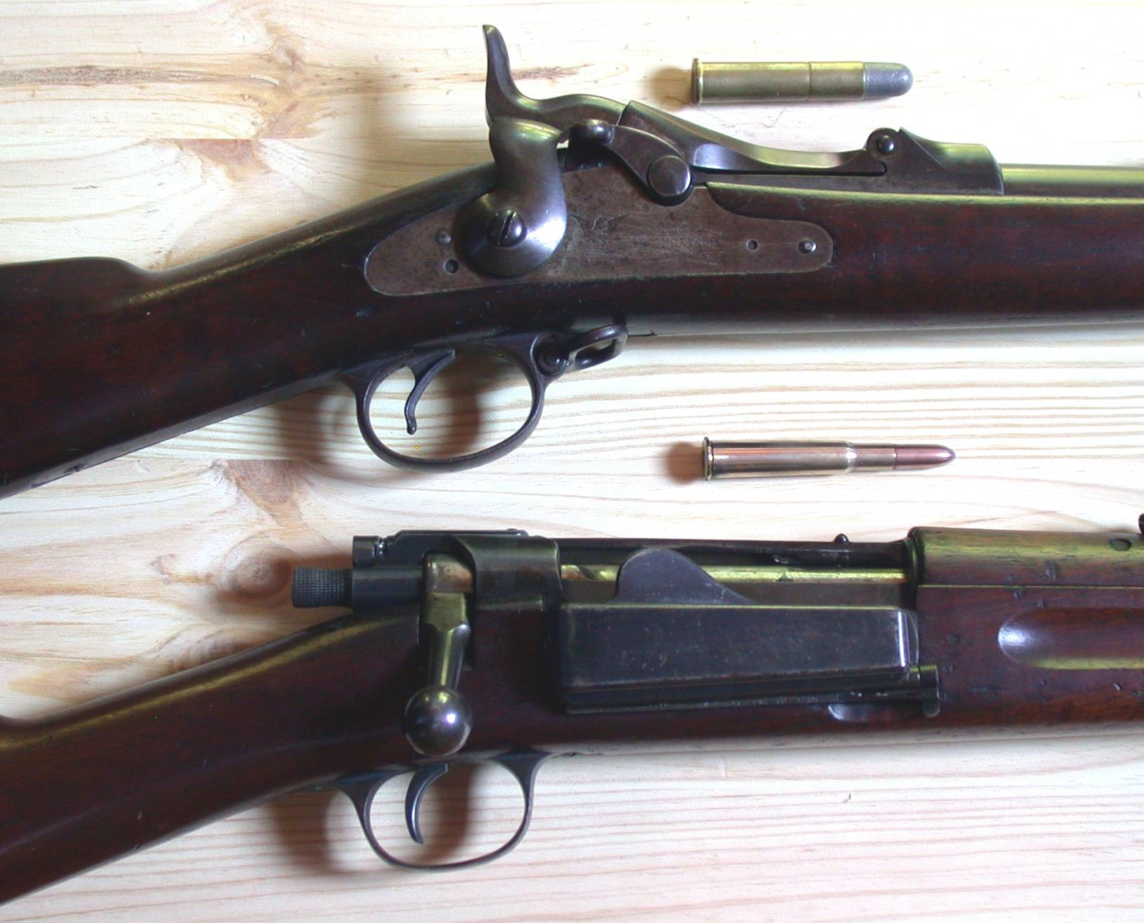 Springfield Trapdoor Model 1888, .45-70 round & Krag rifle, .30 Krag round